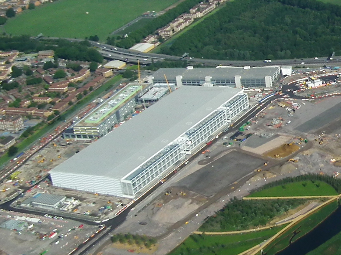 Construction of Olympic Park, London — June 2011. Aerial photo of the Media Centre for the 2012 Olympics.